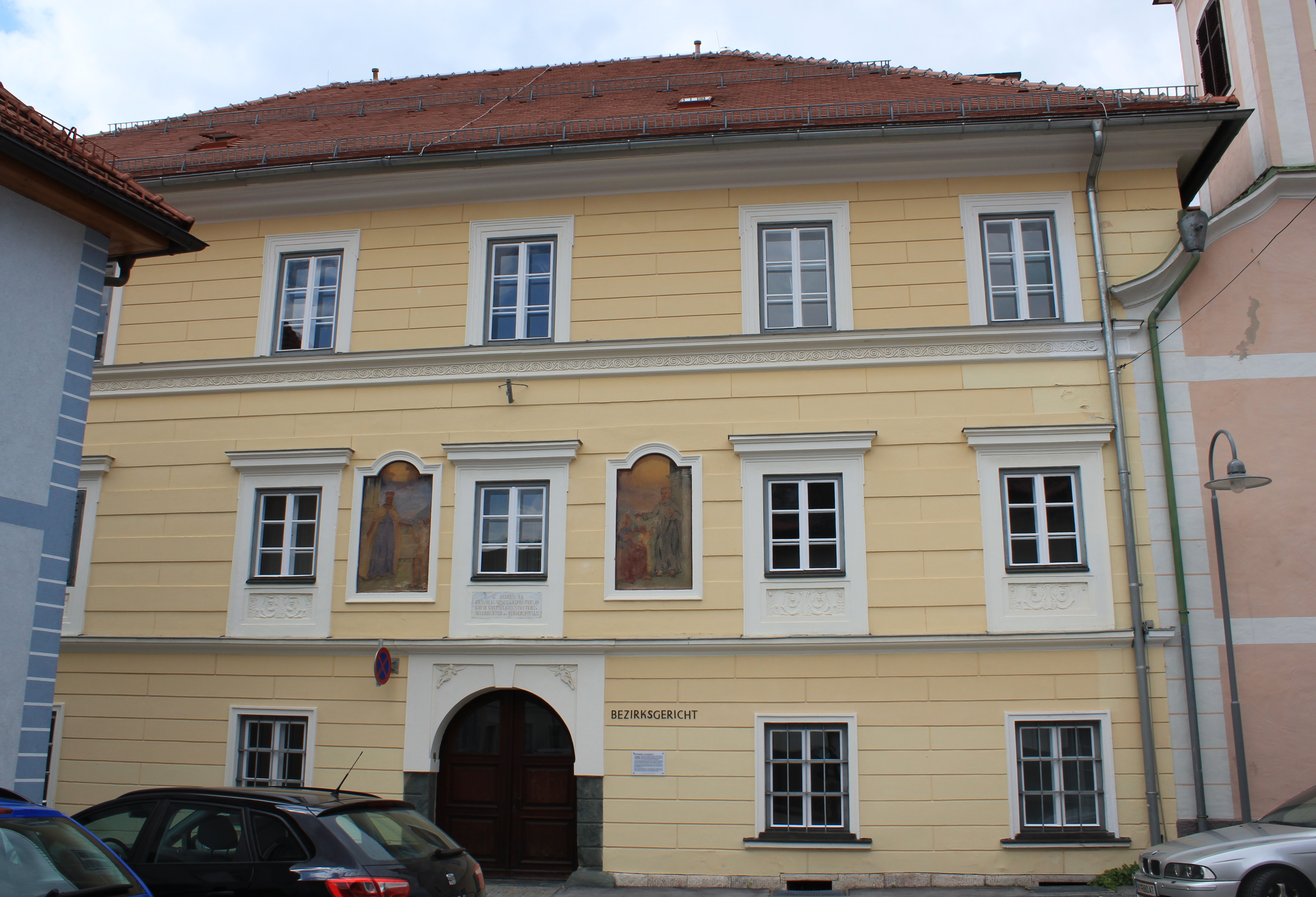 District court in Bleiburg